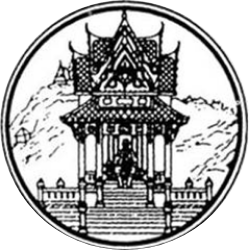 อังกฤษ-ไทย Description